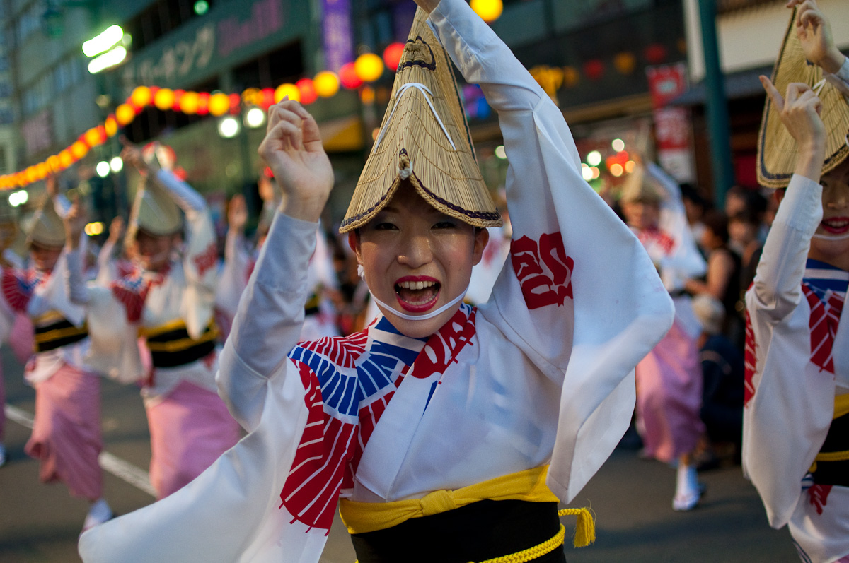 Group of female dancers at the Awa Odori Matsuri in Tokushima.